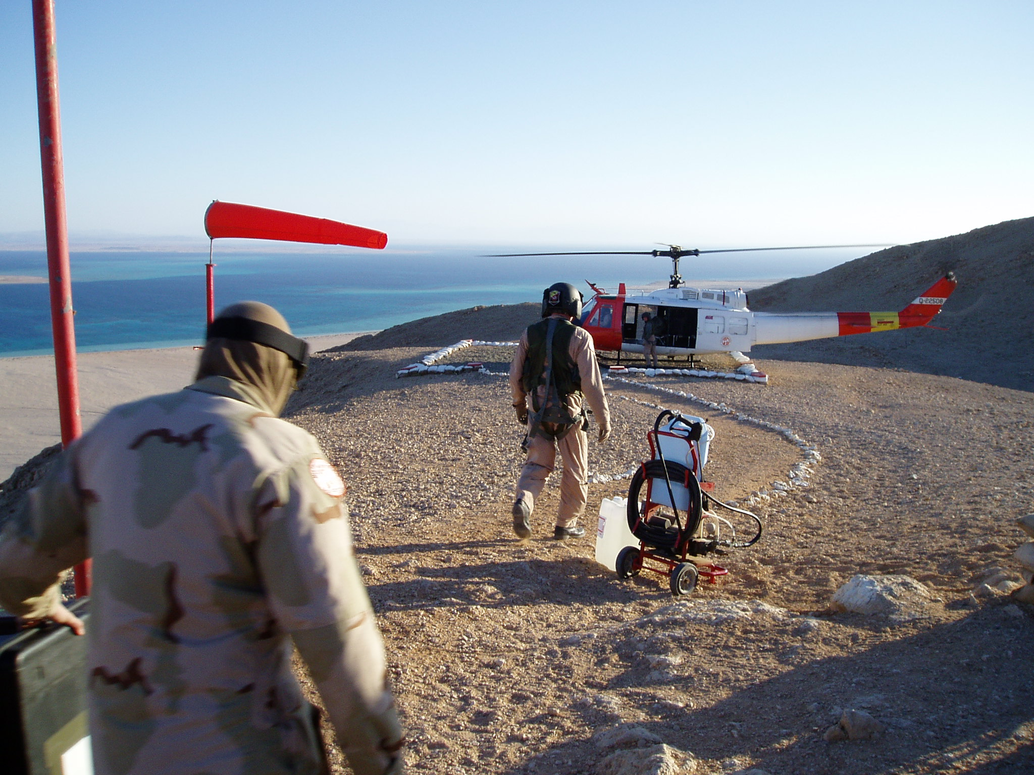 USBATT and SUPBATT Multinational Force and Observers (MFO) members preparing for liftoff from Tiran Island, Red Sea. Mainland Saudi Arabia is visible in the background.